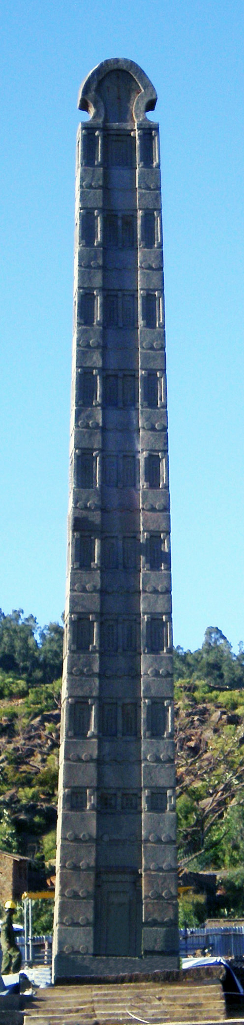 Ezana Stelae, Aksum, Ethiopia